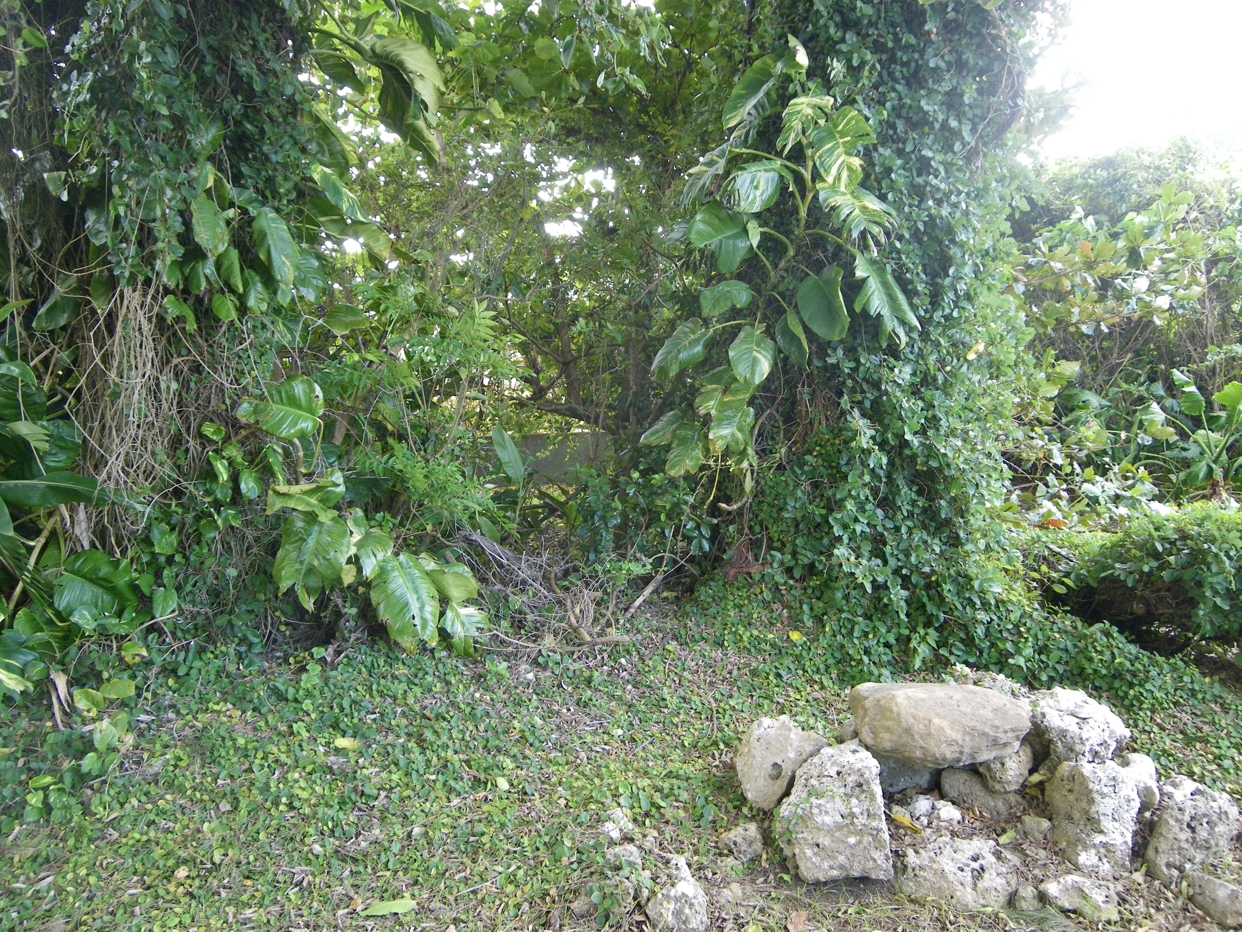 Wadokinā, a woody hill that Minamoto no Tametomo and the younger sister of Ōzato Aji met secretly, and then, a child of the couple was Shunten, the first of the Ryukyu King, according to a folklore. Located in Itoman, Okinawa Prefecture, Japan.